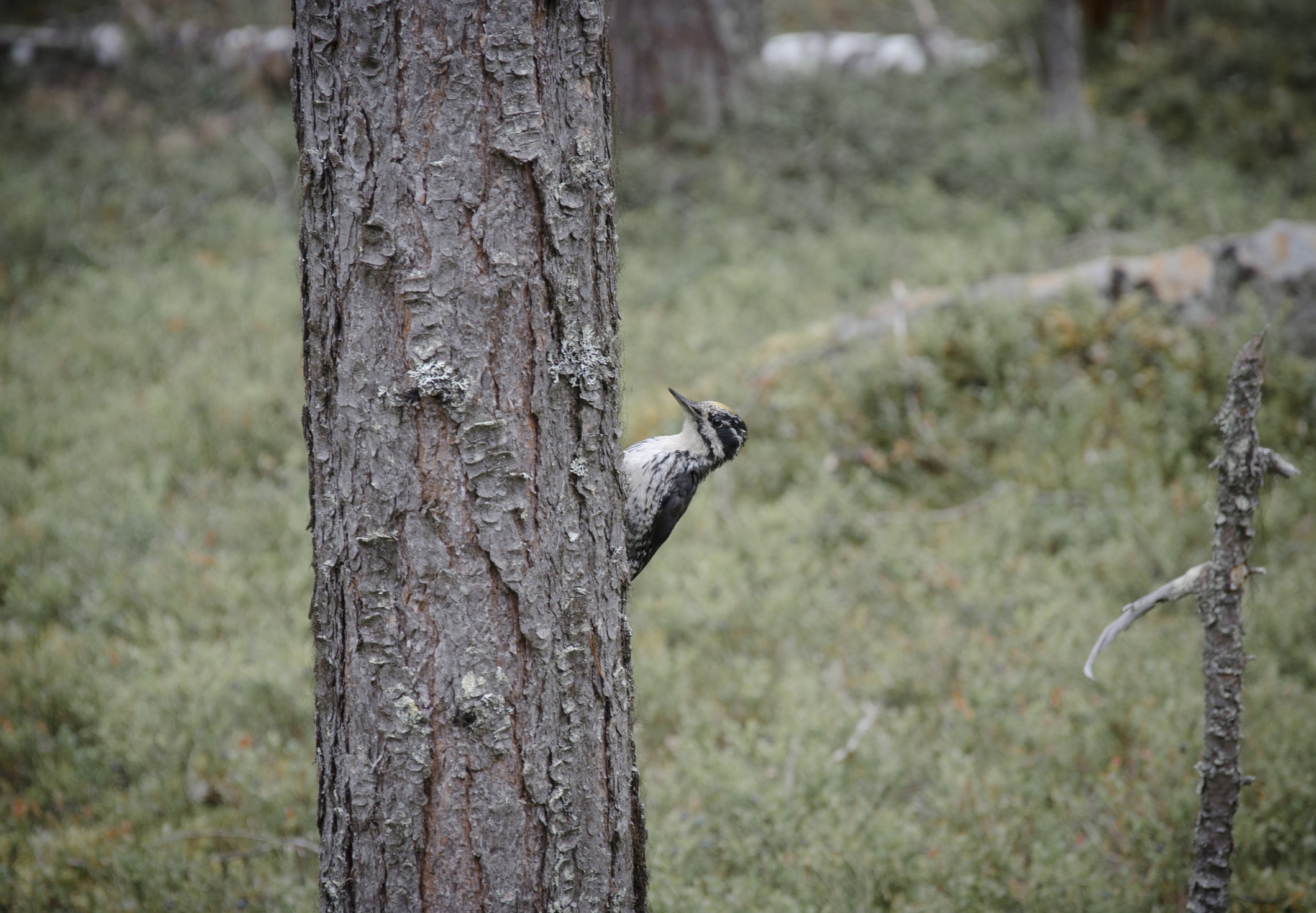 Picoides tridactylus in Muddus forests